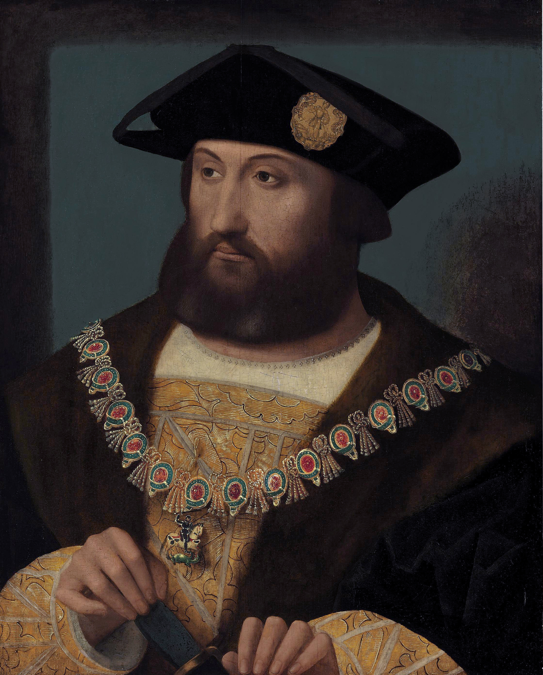 Master of the Brandon Portrait's name piece